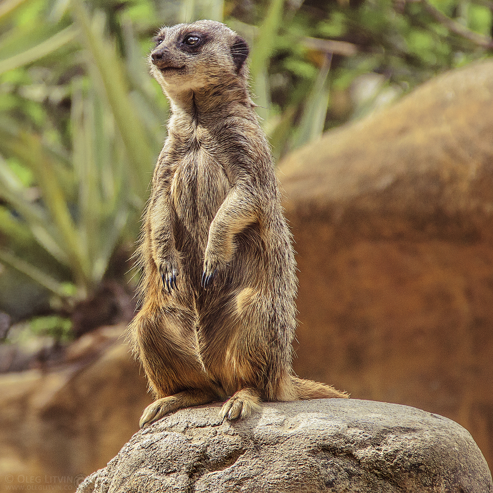 Meerkat in the Cali, Colombia Zoo.